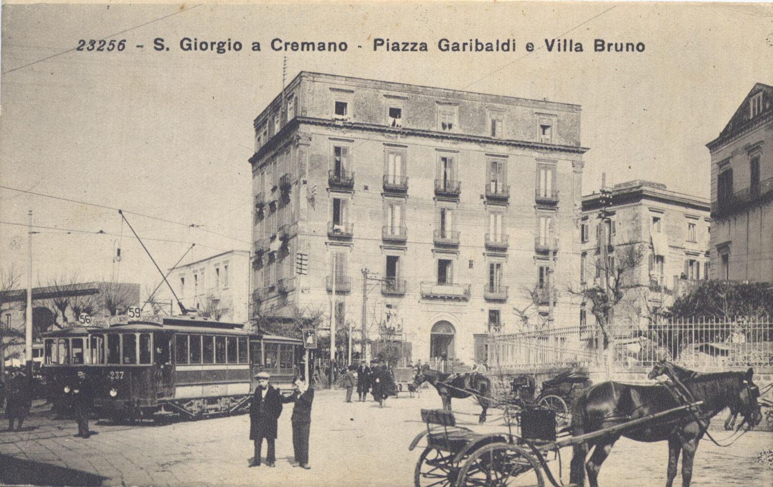 San Giorgio a Cremano-Pza Garibaldi con tram